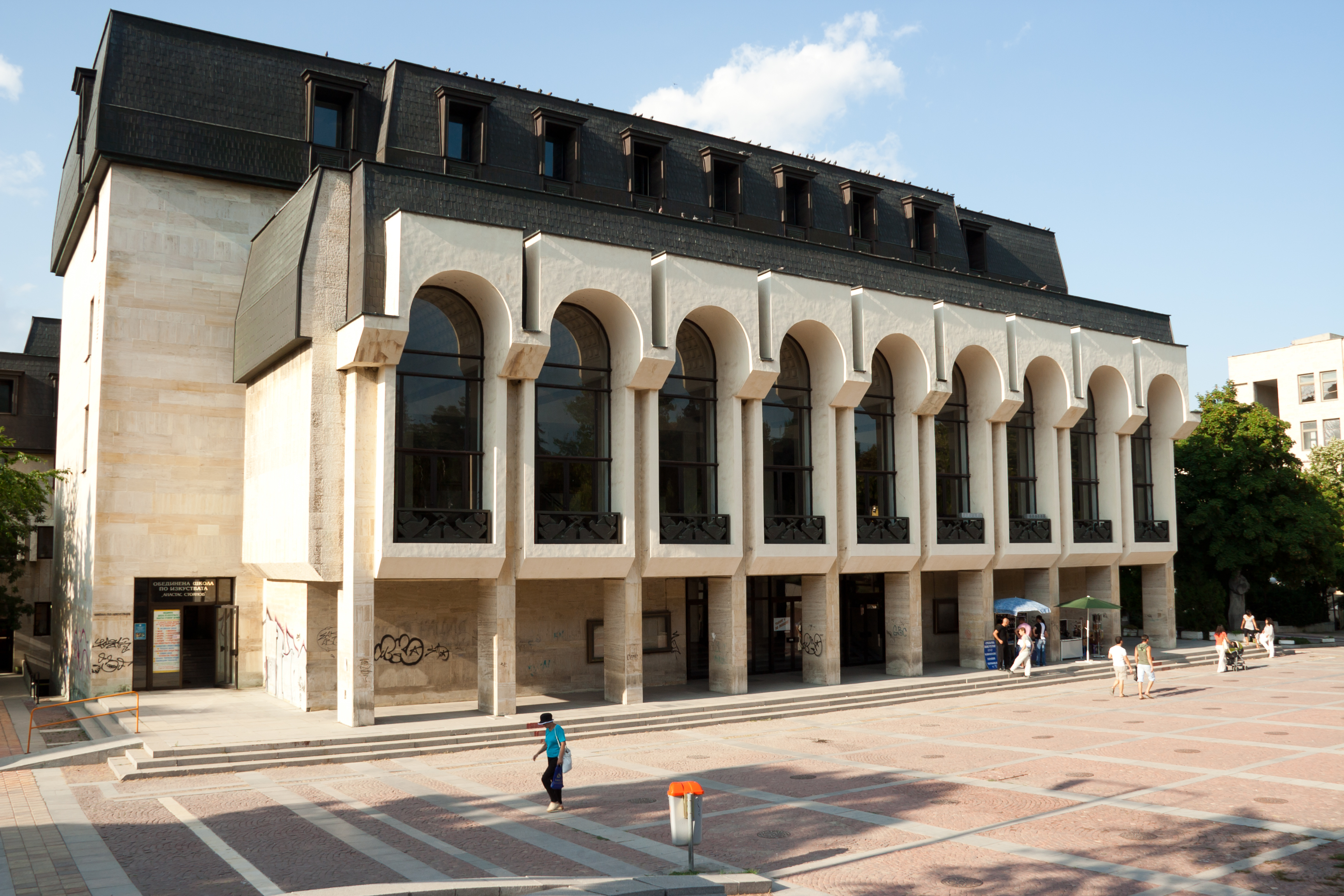 The dramatic theater Vasil Drumev in Shumen, Bulgaria.